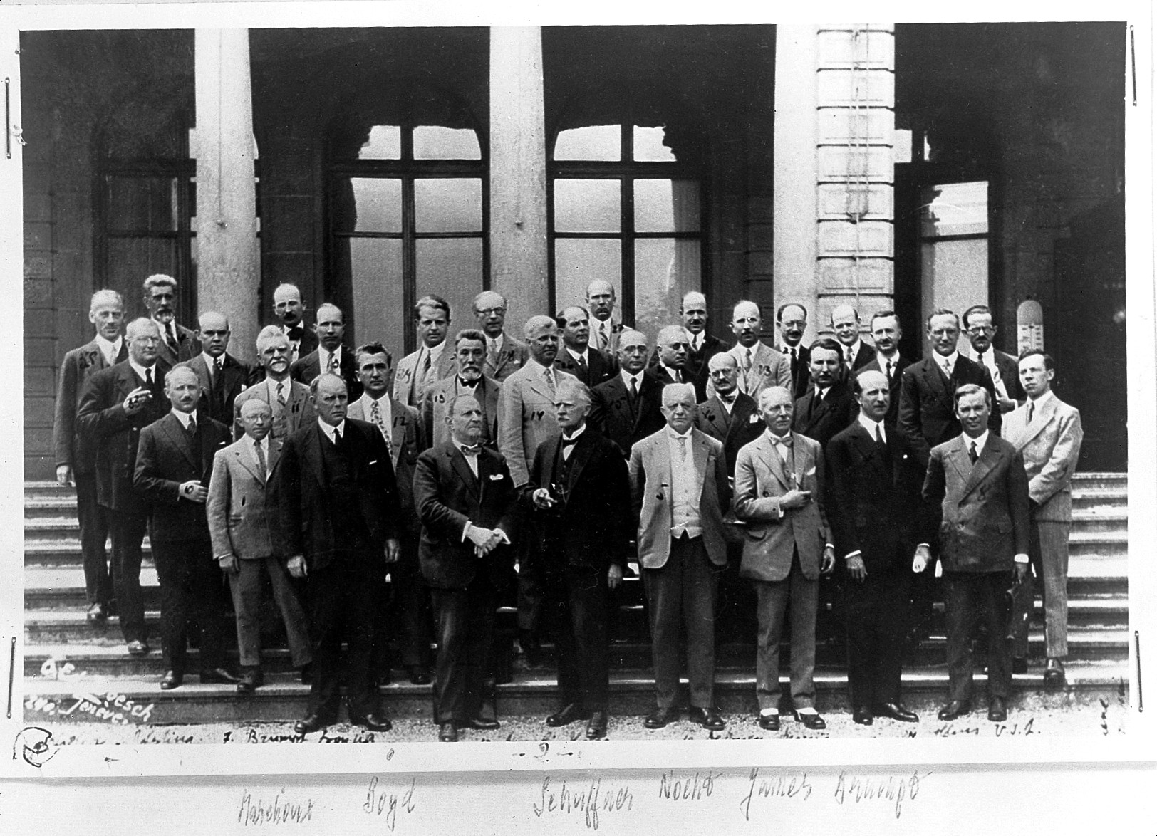 Malaria Commission of the League of Nations, Geneva. Photograph by Poesch photographic agency, 1928. Includes Emile Marchoux, Mark F. Boyd ([1], Schuffner, Bernhard Nocht and Col. James.